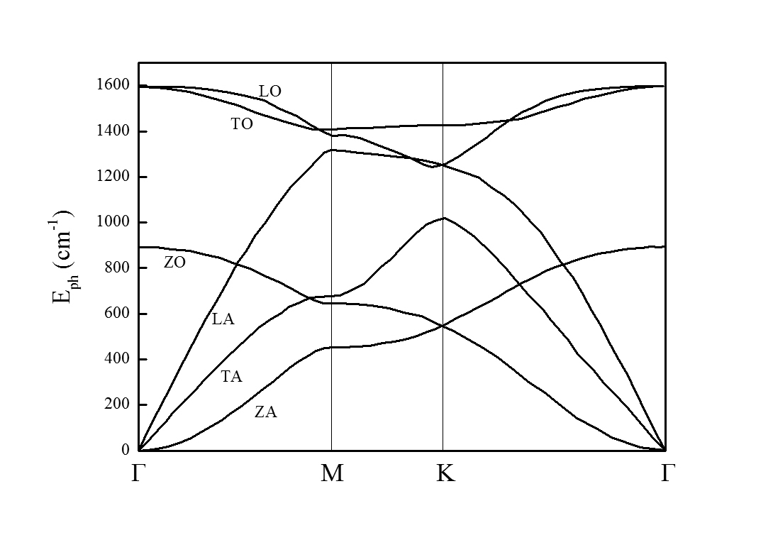 Phonon energy of graphene